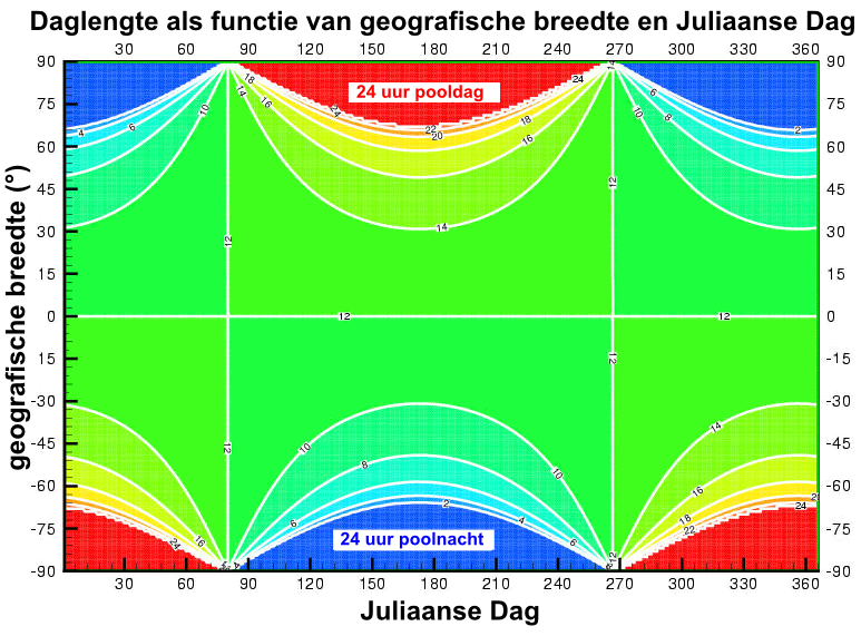 A plot of day length as a function of latitude and Julian day.